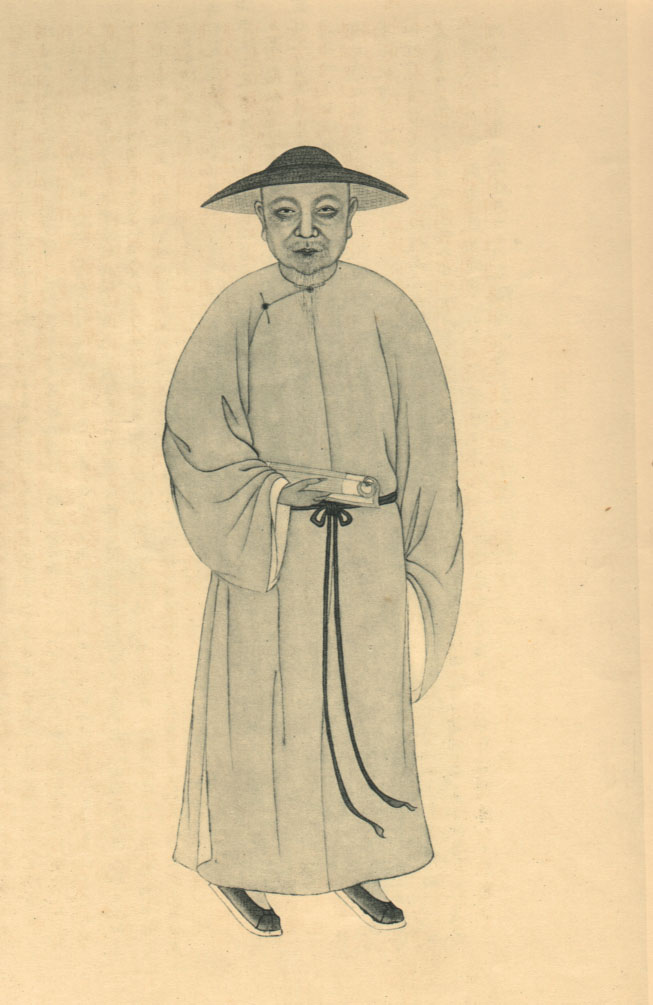 Wu Weiye, scholar of the Qing Dynasty.